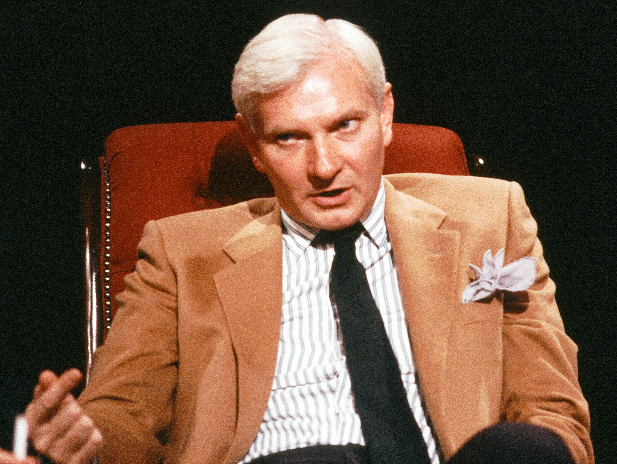 Harvey Proctor appearing on After Dark on 4 June 19884. Other guests included Christine Keeler and Nina Myskow. More here.